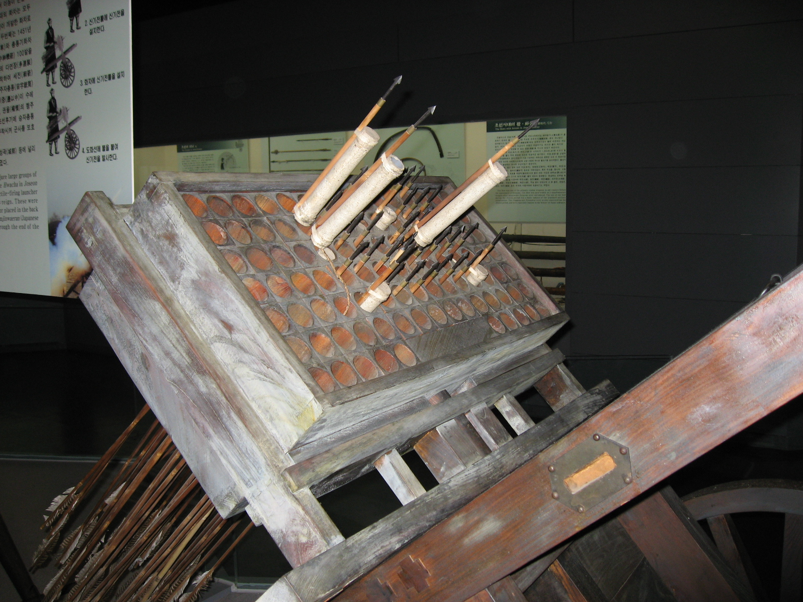 A close-up of the front of a Hwacha.